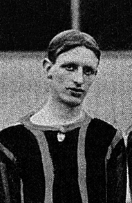 Sidney Sugden while with Brentford FC 1908/09